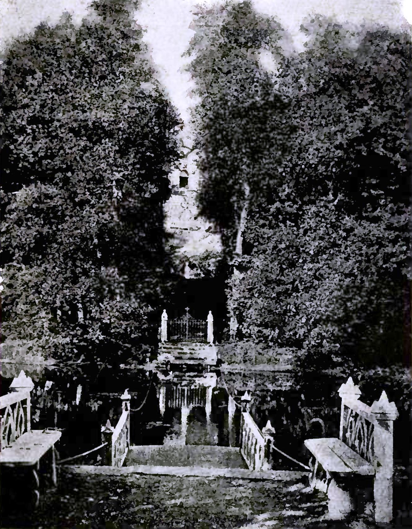 In the park of Monrepos, the ferry to Ludwinstein